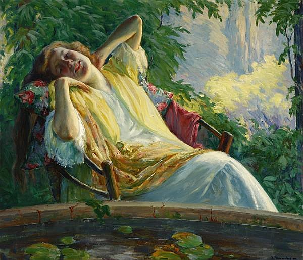 Woman reclining in a chair near a lily pond, probably the artist's daughter